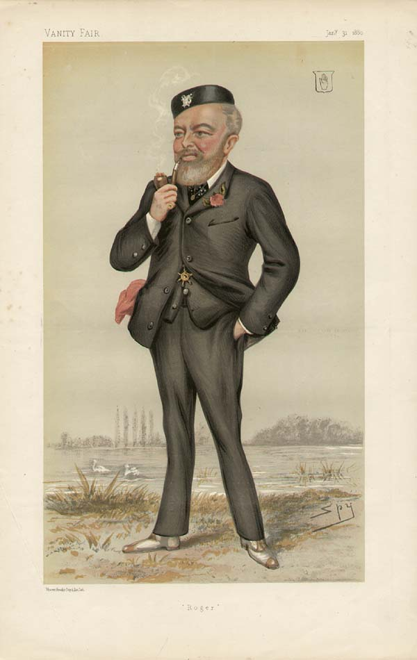 Caricature of Sir Roger William Henry Palmer Bt (1832-1910). He was the 5th Baronet of Castle Lackin. He sat as MP for County Mayo 1857-1865.